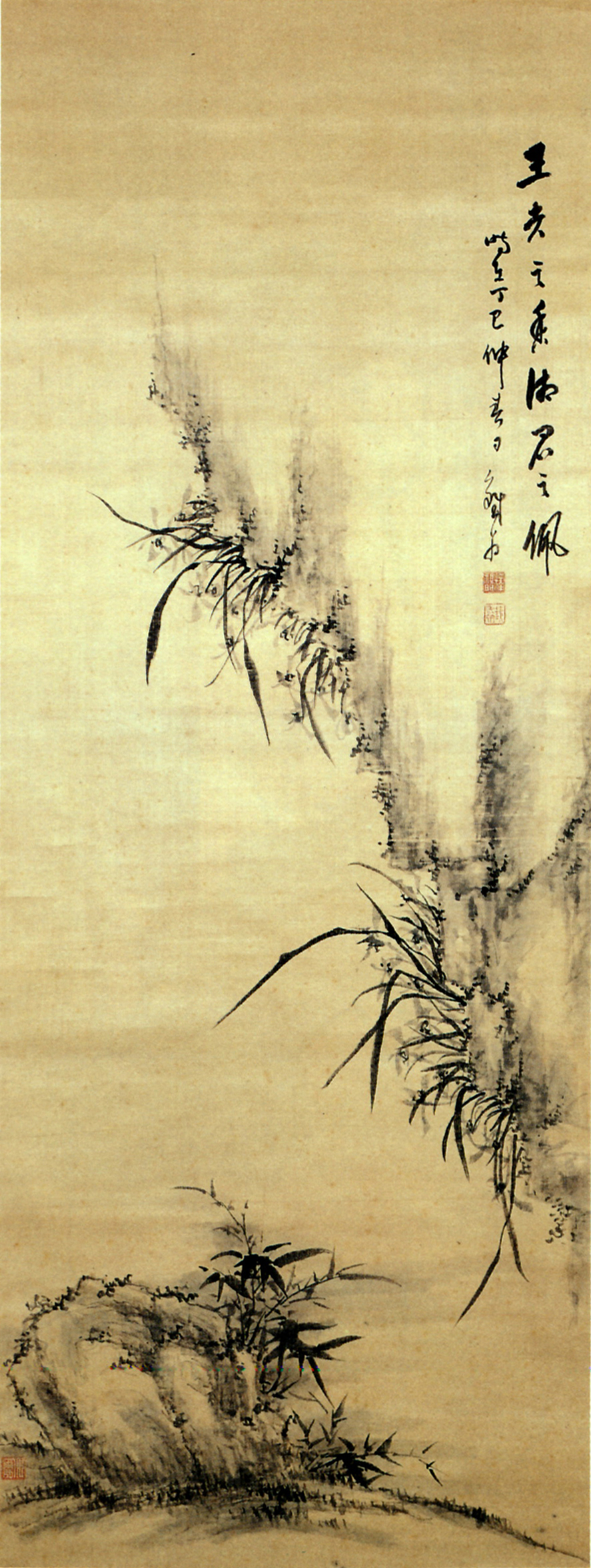 Somon Tetsuoh,Orchid,ink on paper,hanging scroll,Nagasaki Museum